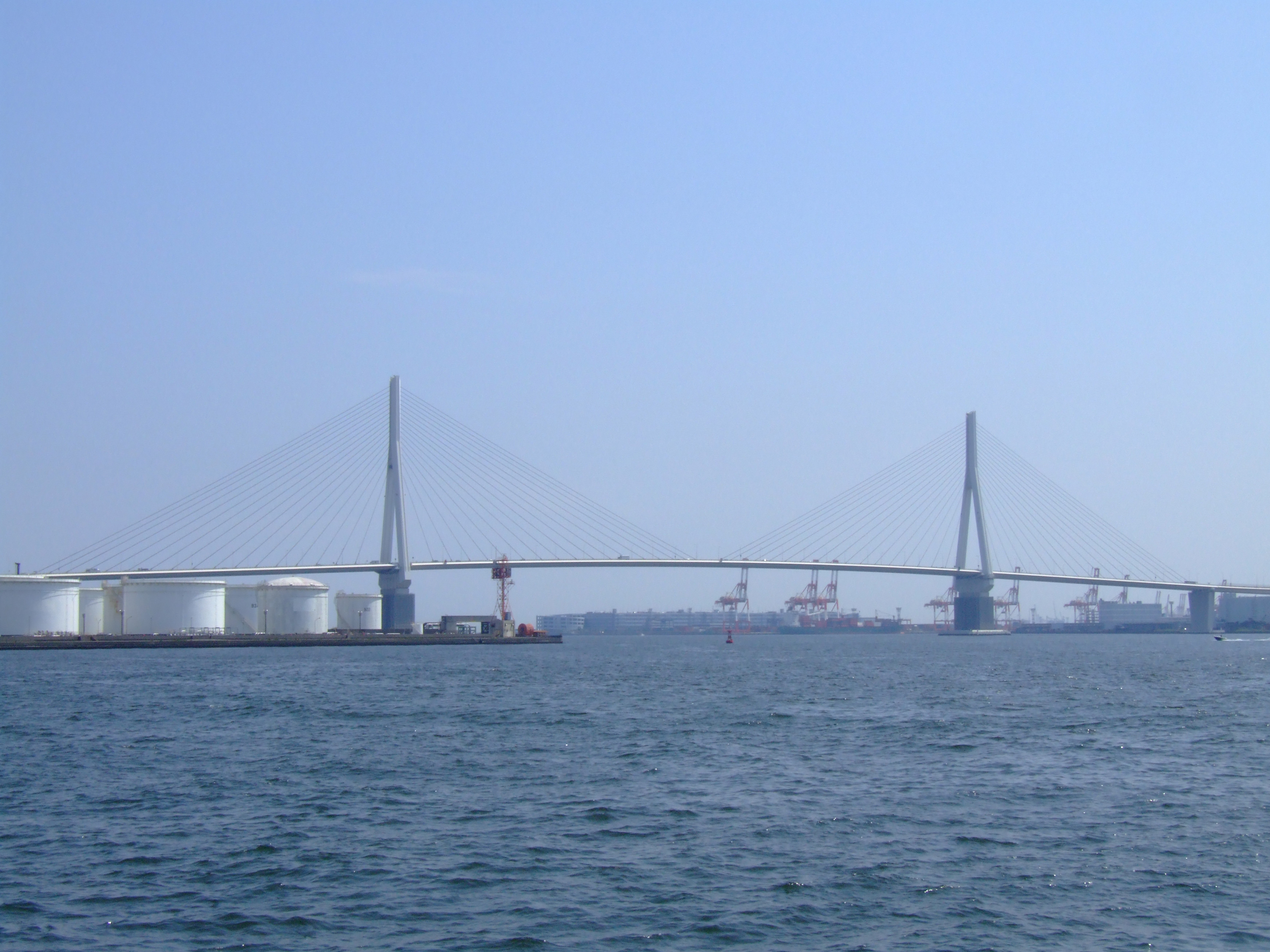 Tsurumi Tsubasa Bridge